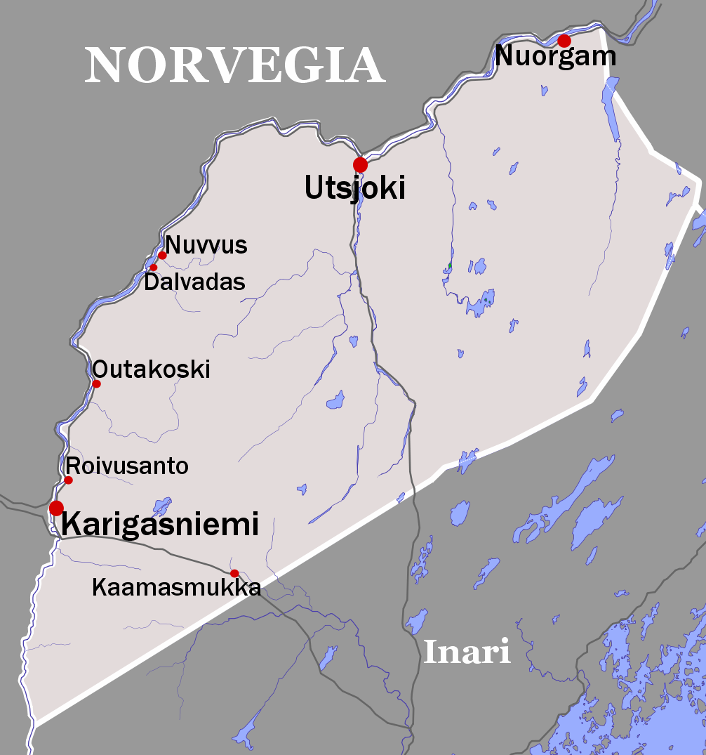 Map of villages in utsjoki, finland